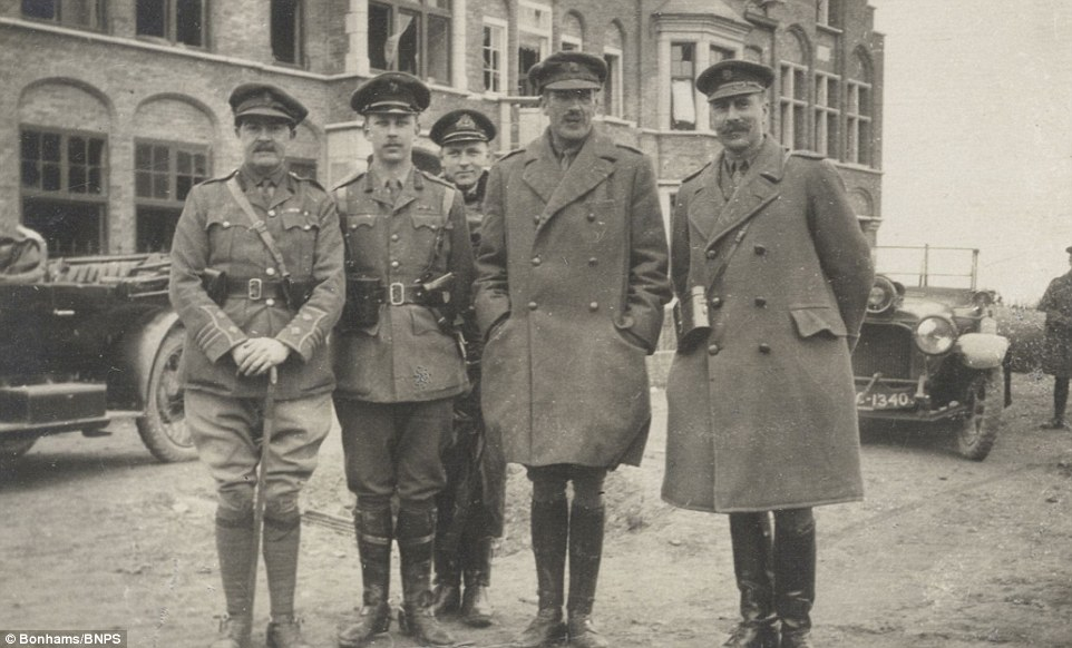 Prince Alexander of Teck with his fellow officers, Lieutenant-Colonel Barry, Lieutenant Lord Claud Hamilton, Colonel and Prince Alexander at Nieuport, March 1915